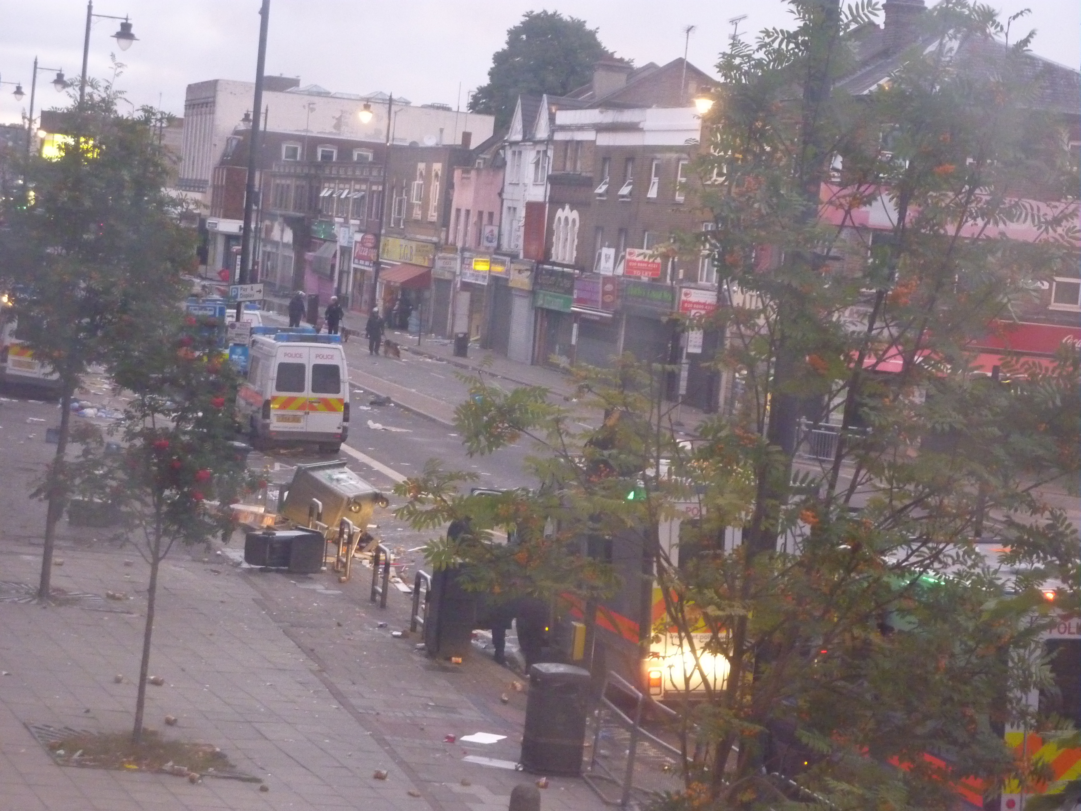 The Day after the Riots